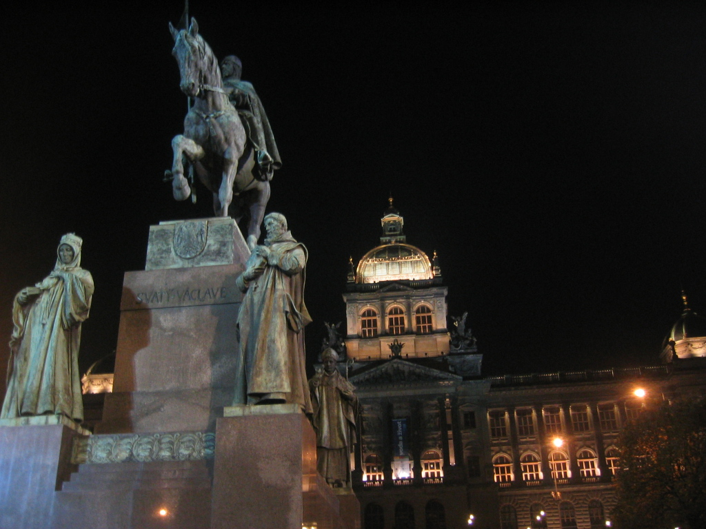 Prague, Wenceslas Square: Wenceslas Monument and National Museum, at night